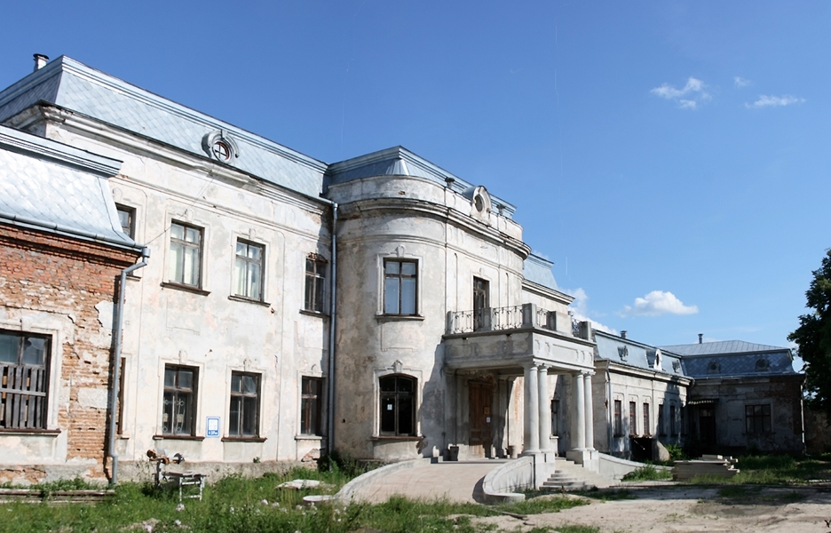 Krystynopol Palace of the Potocki family